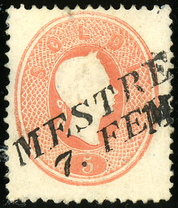 Austrian KK stamp in Venetia province, 5 soldi issue 1861, cancelled at Mestre.